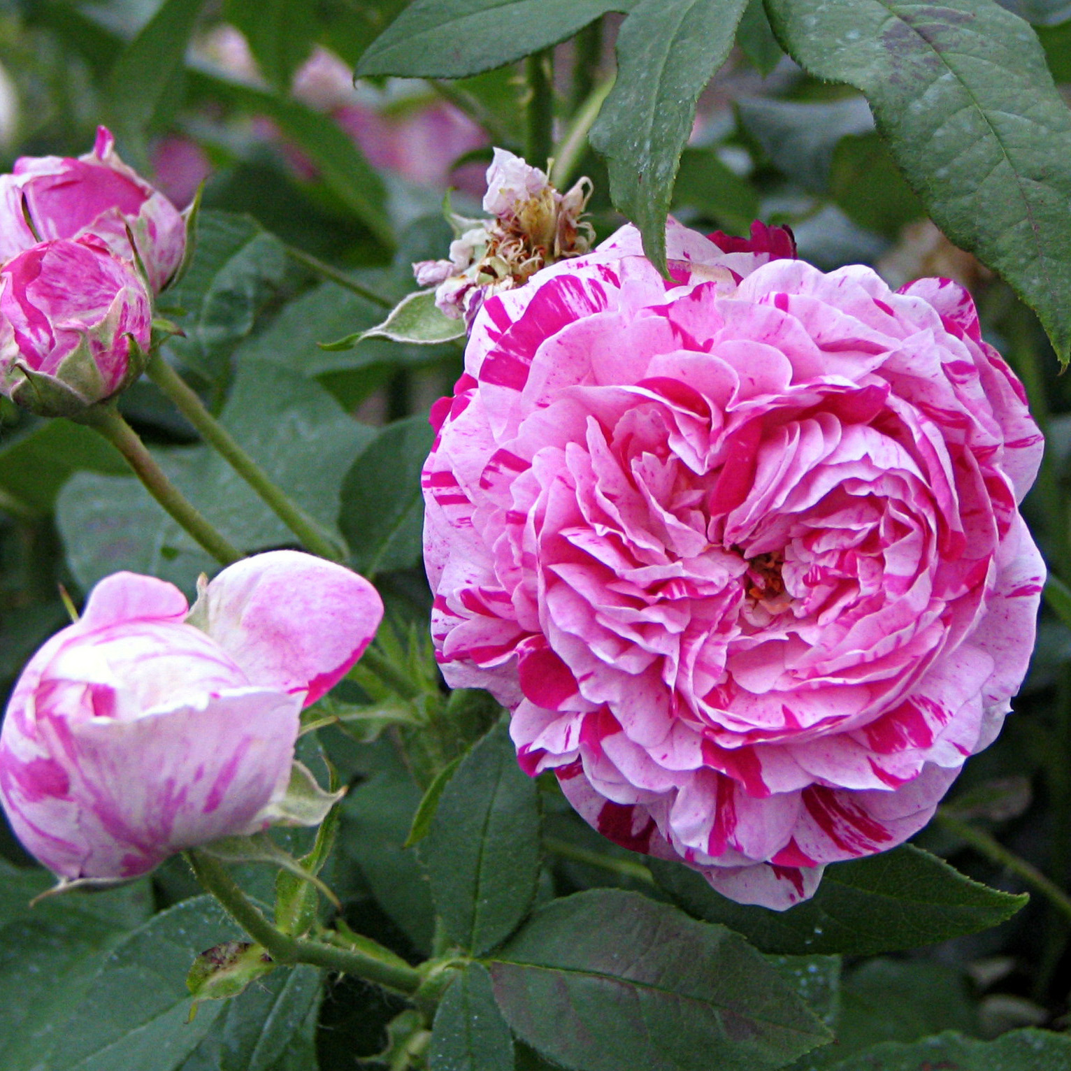 Old Garden Roses Bourbon group